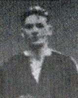 Len Birks